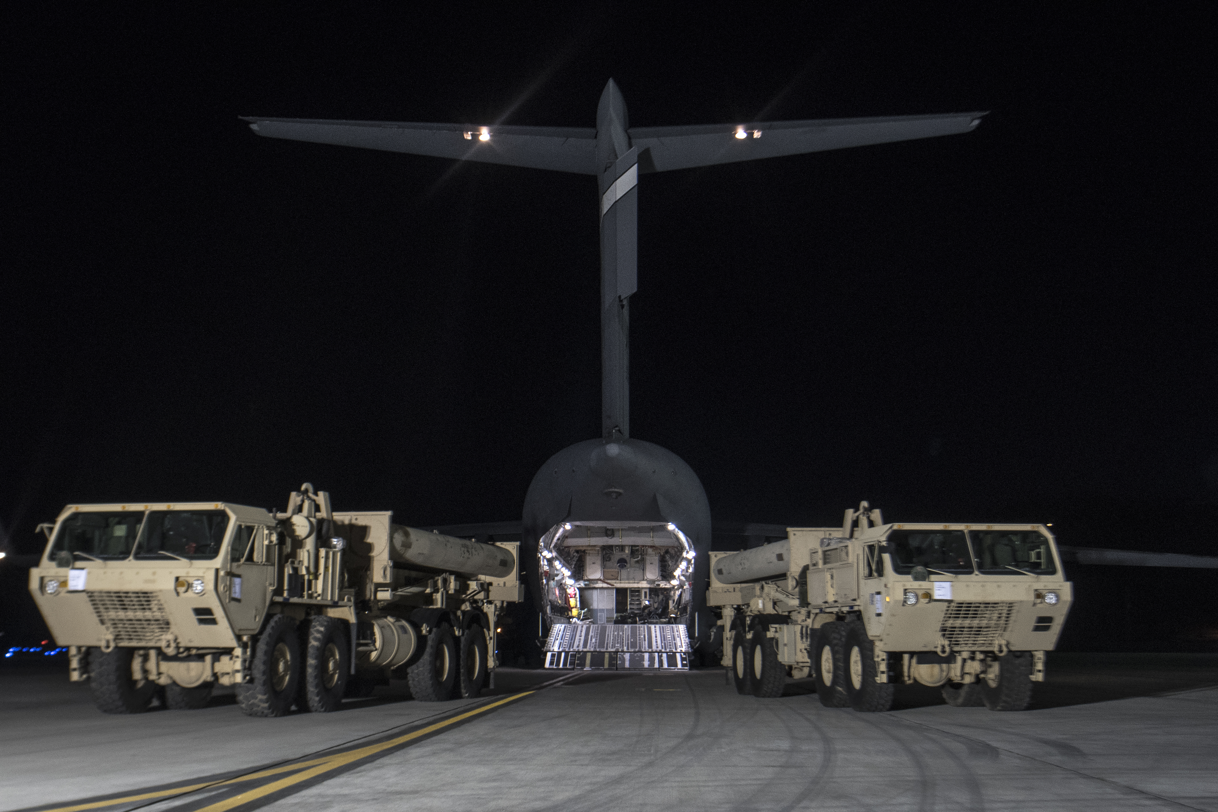 Posed photo of two US Army THAAD launchers, battery delta, 2nd Air Defense Artillery Regiment, after they were flown into South Korea in March 2017. U.S. Forces Korea continued its progress in fulfilling the Republic of Korea - U.S. Alliance decision to install a Terminal High Altitude Area Defense (THAAD) on the Korean Peninsula as the first elements of the THAAD system arrived in the ROK. "The timely deployment of the THAAD system by U.S. Pacific Command and the Secretary of Defense gives my command great confidence in the support we will receive when we ask for reinforcemet or advanced capabilities," said Gen. Vincent K. Brooks, U.S. Forces Korea commander.